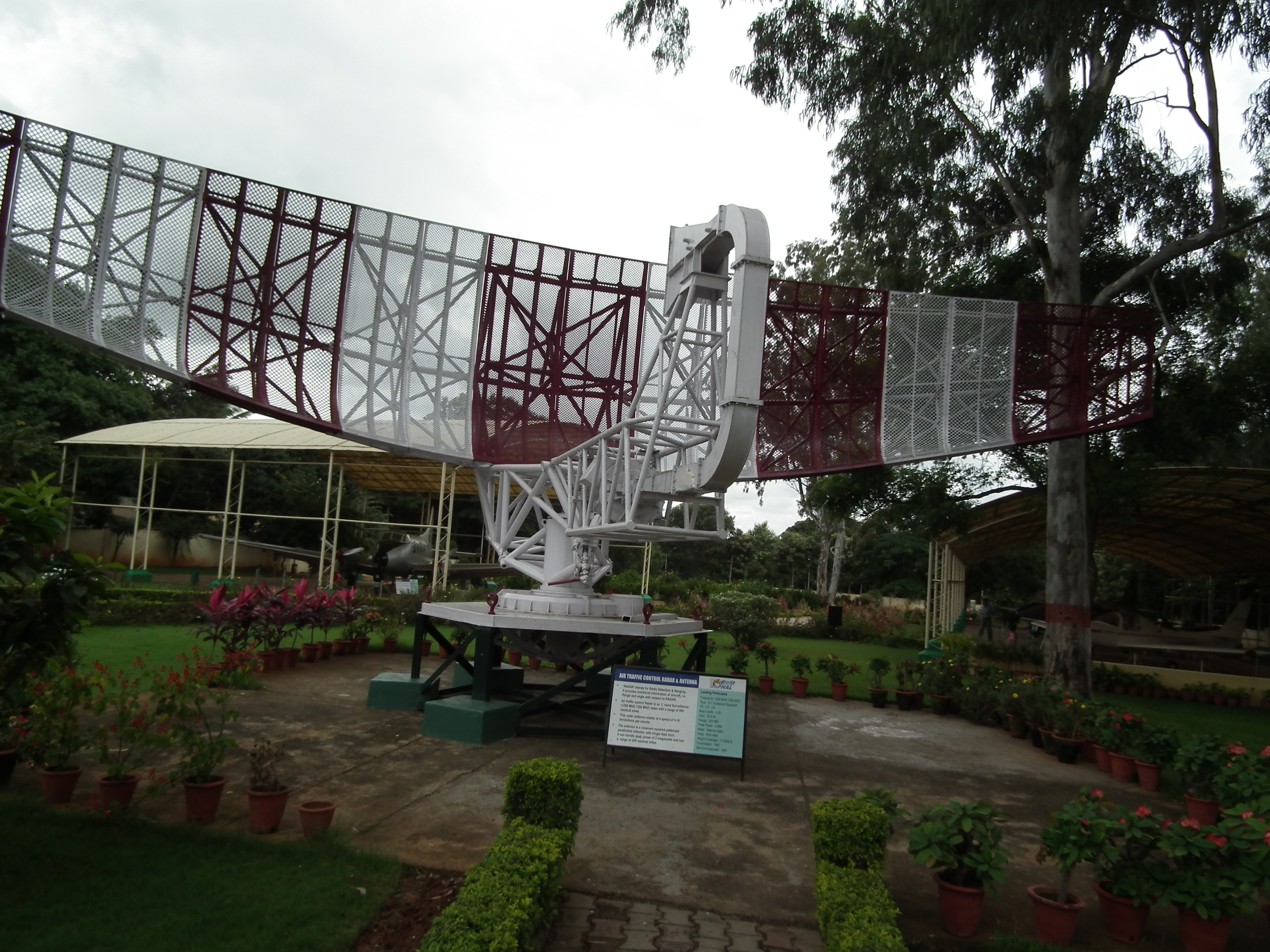 Air traffic control radar and antenna displayed at HAL Museum in Bangalore